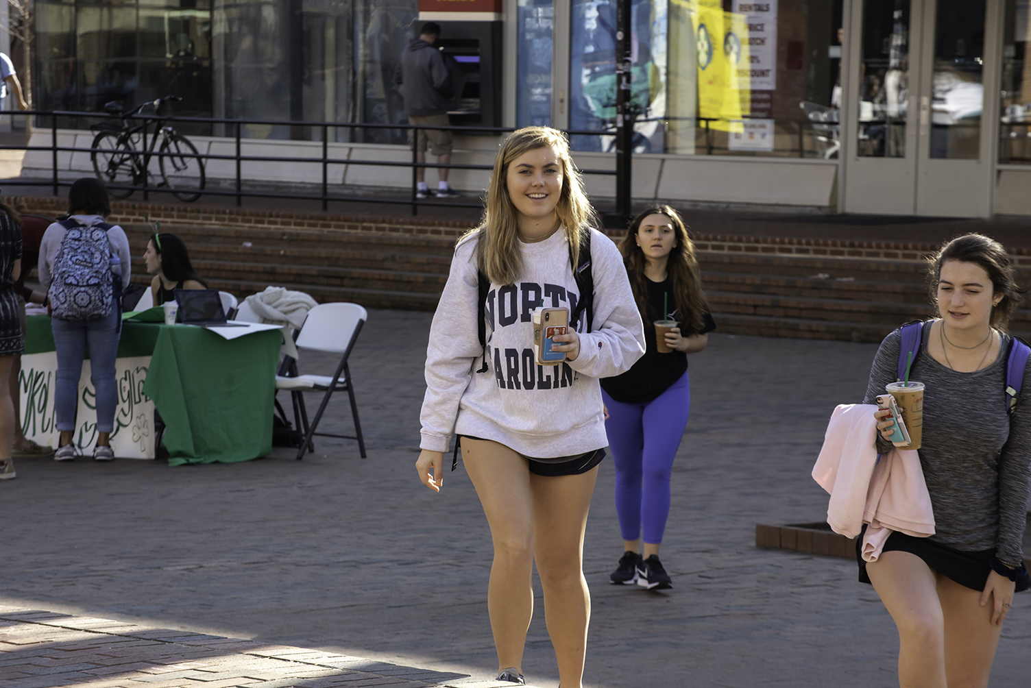 2 female students at UNC-Chapel Hill walk through campus between classes